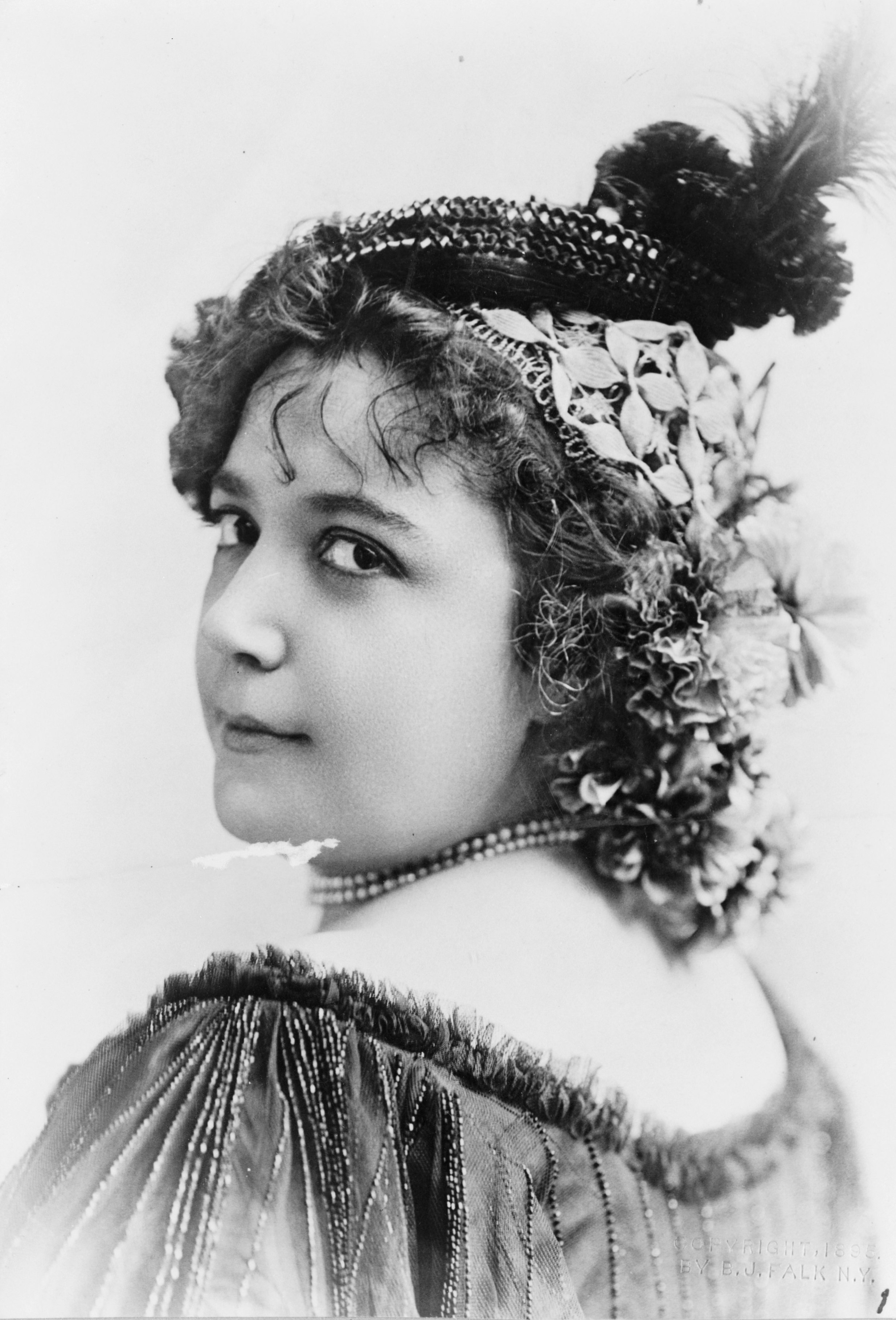 Fay Templeton (1865 - 1939), American stage actress